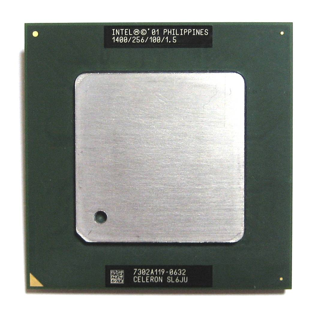 Intel Celeron processor 1.4 GHz (100 MHz FSB, 256 KB L2 caches), FC-PGA2 package for Socket 370.